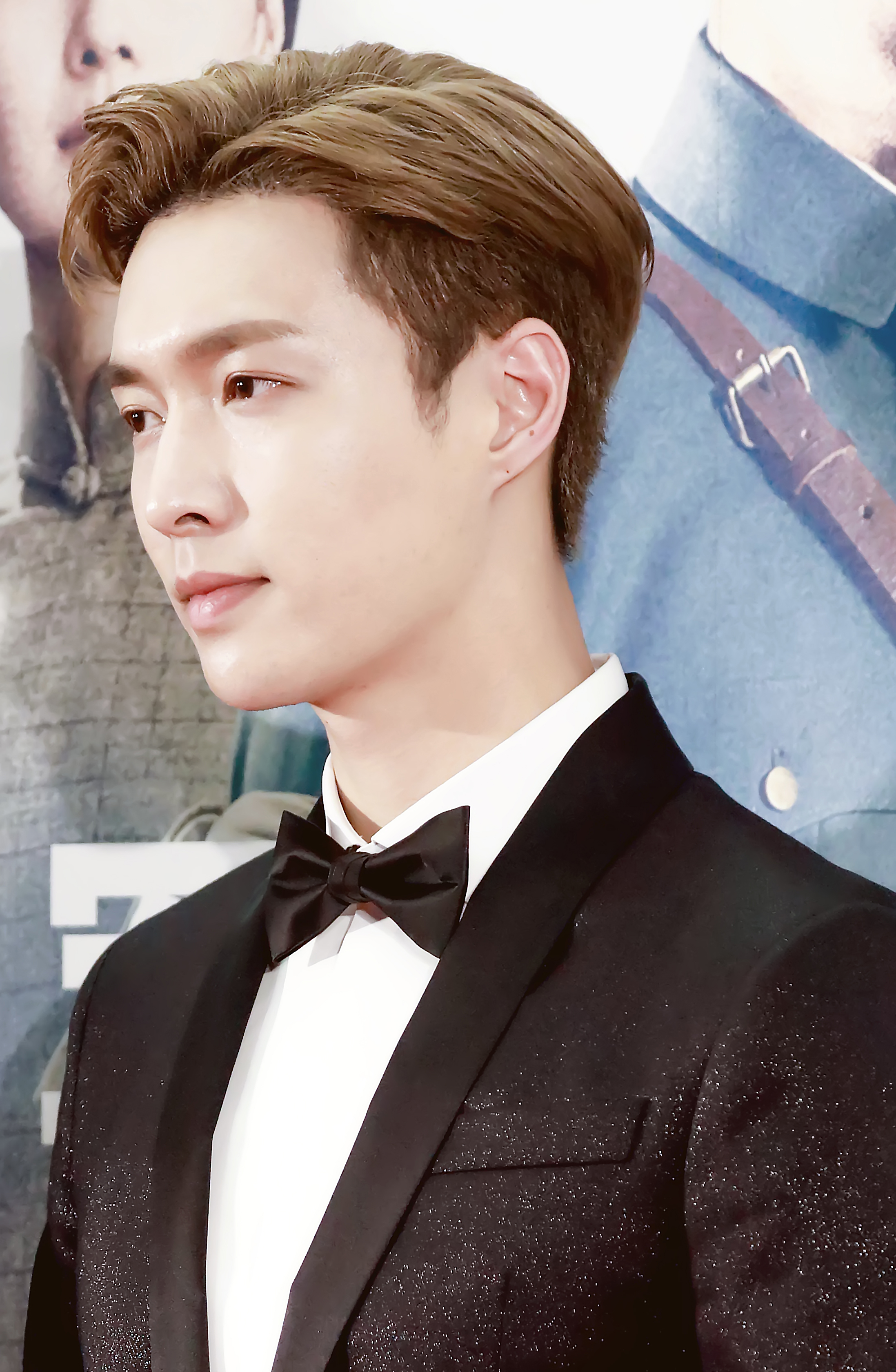 Zhang Yixing at press conference of "The Founding of an Army" on July 24, 2017.